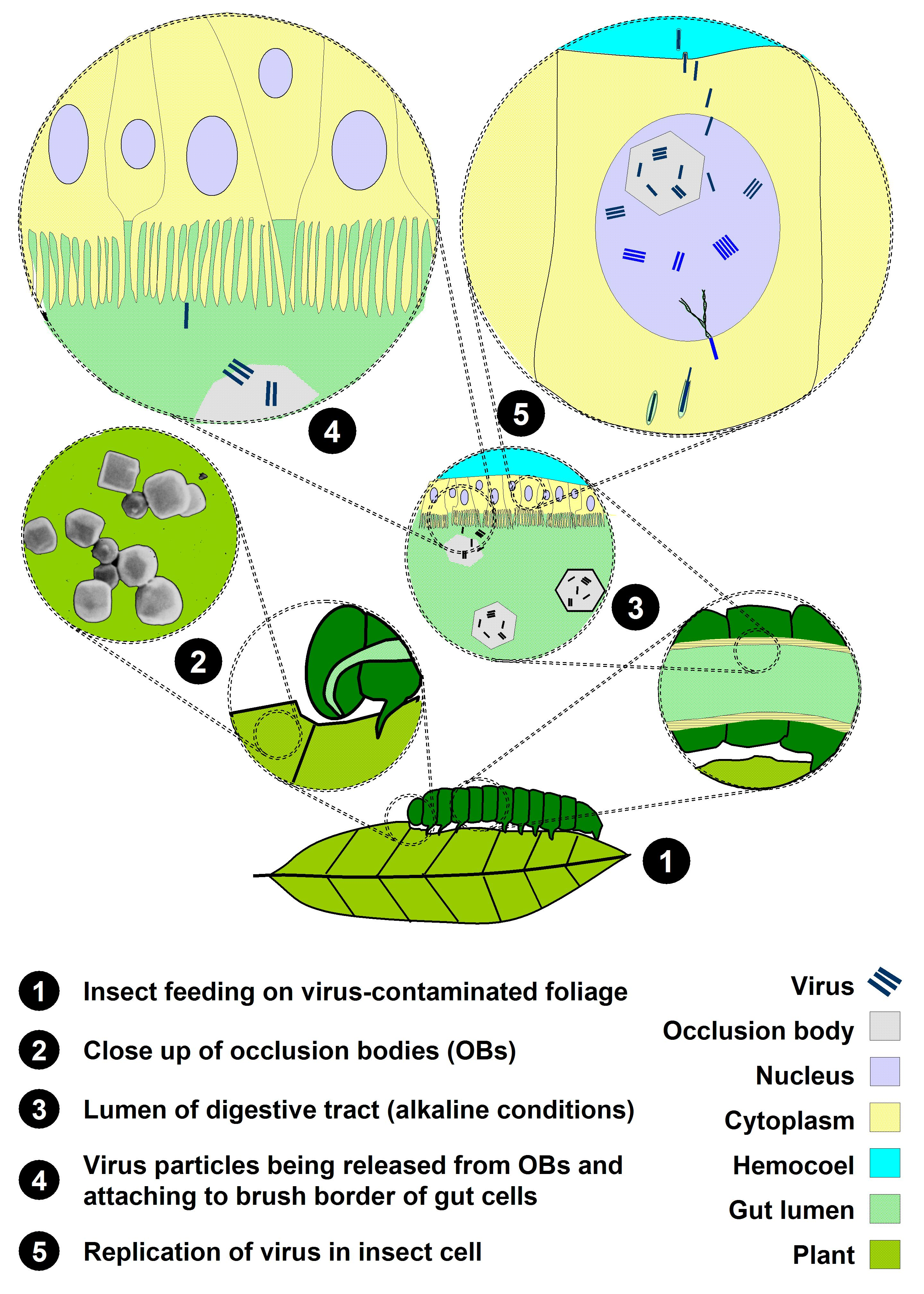 Life cycle of Nuclear polyhedrosis virus (NPV)